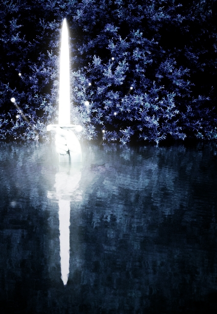 A sculpture of the sword given to King Arthur by the Lady of the Lake, in the lake of Kingston Maurward gardens